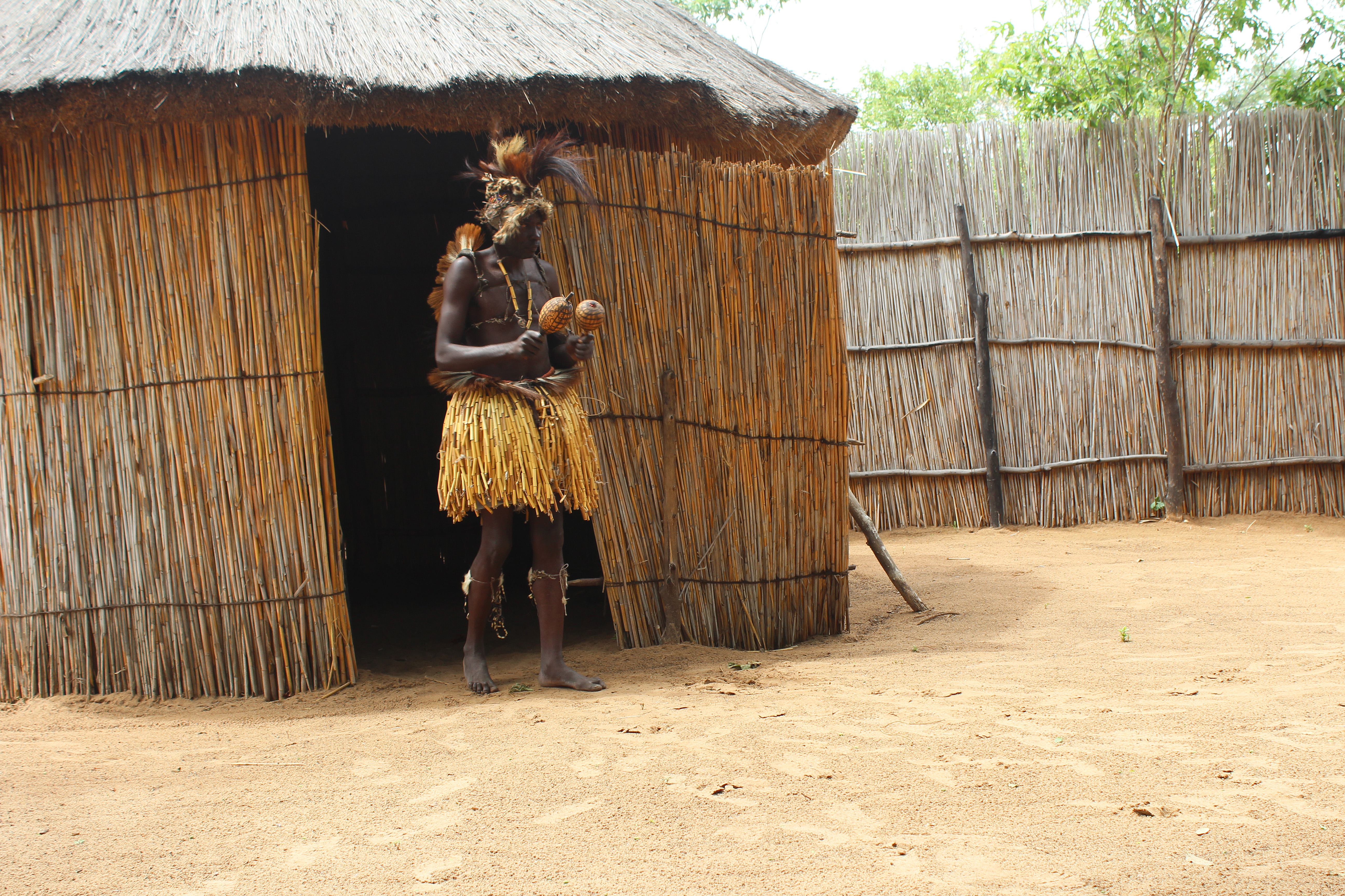 This picture was taken in the North-eastern part of Namibia. This is to showcase what the traditional healers wear. The two items he is carrying are used to transmit the message from the patient to him. This is an image of Cultural Fashion or Adornment from Namibia